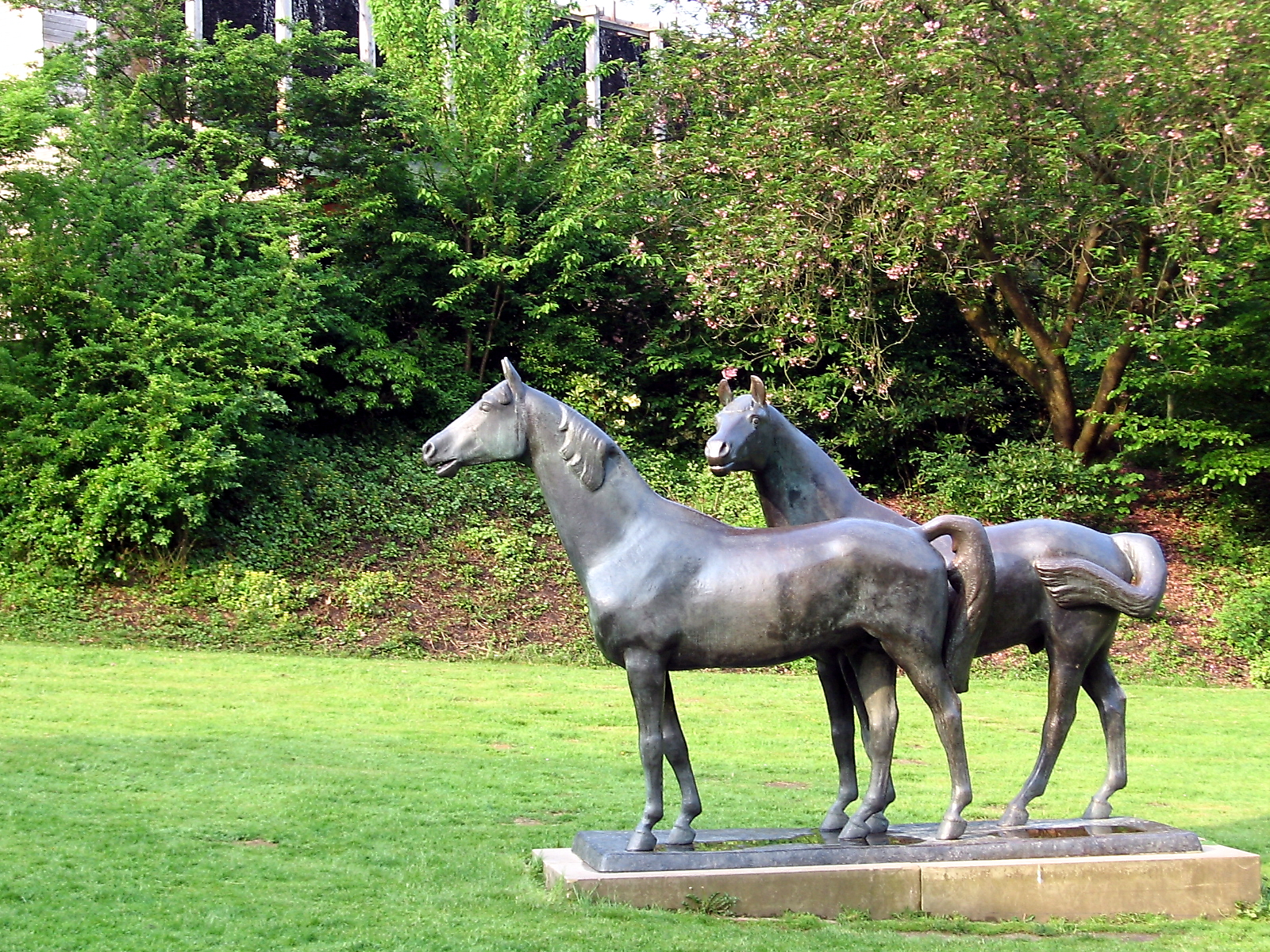 Sculpture (1937/8) by Philipp Harth in the Grugapark Essen/Germany.